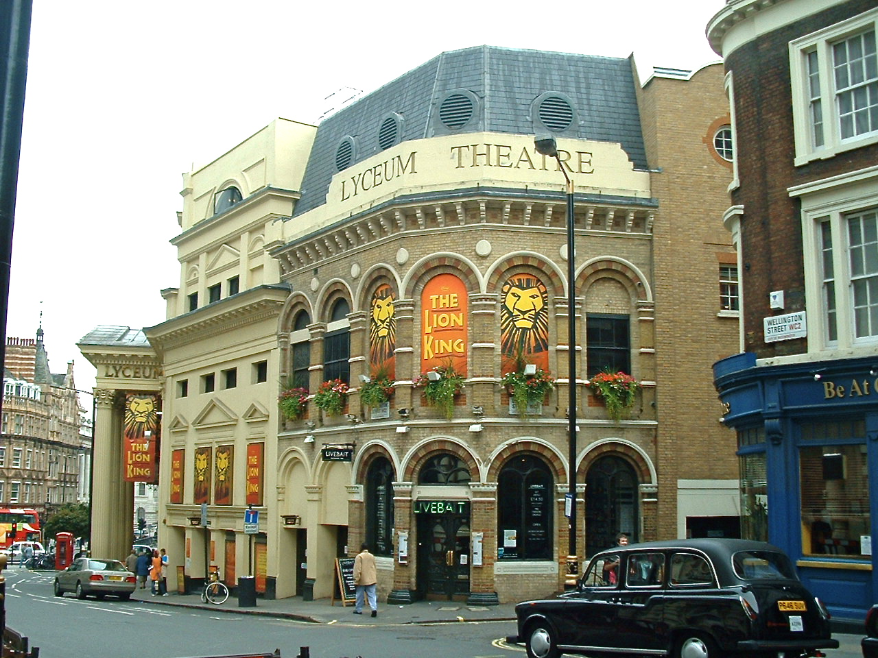 Lyceum Theatre, London, 2007